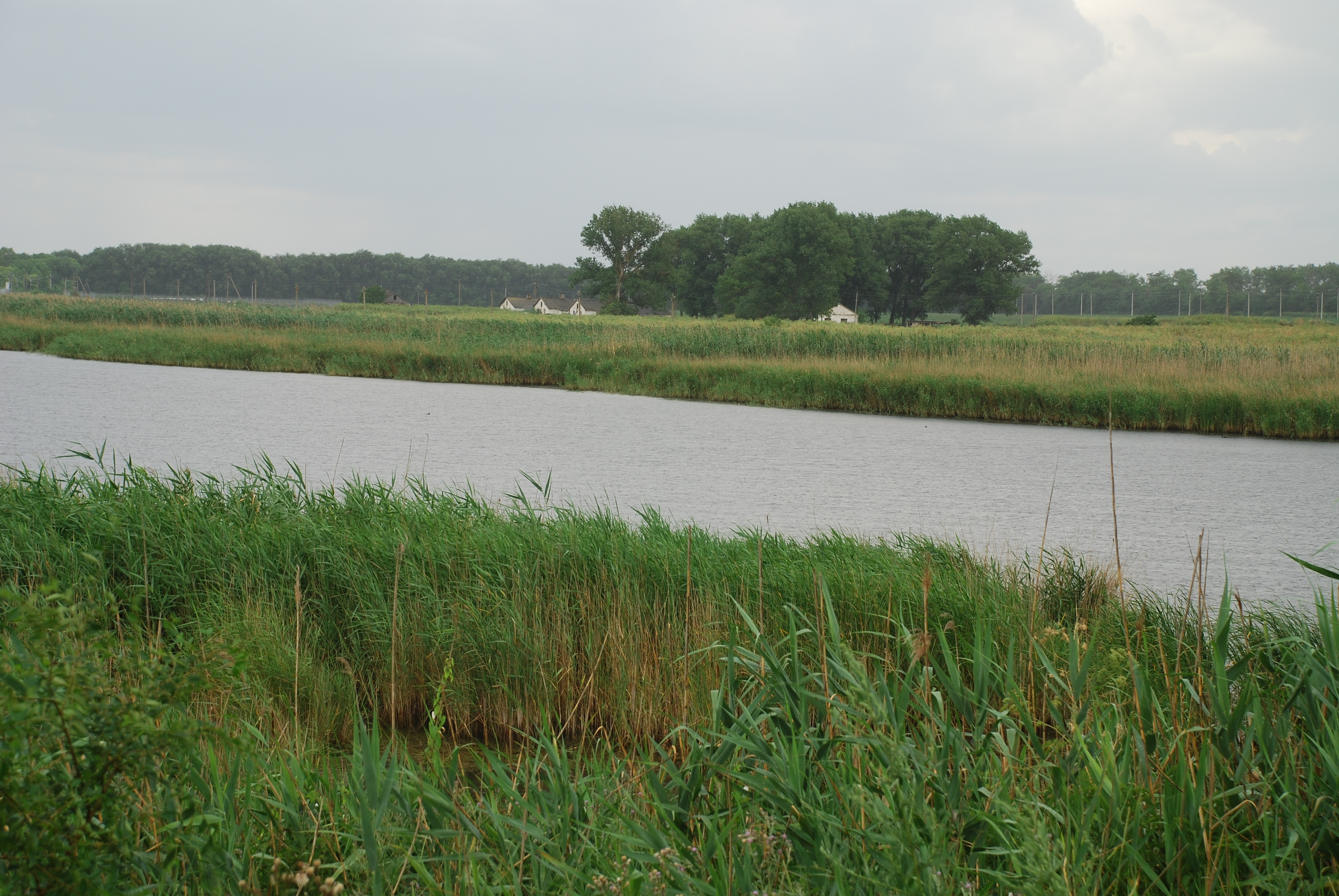 Sosyka River near Pavlovskaya.